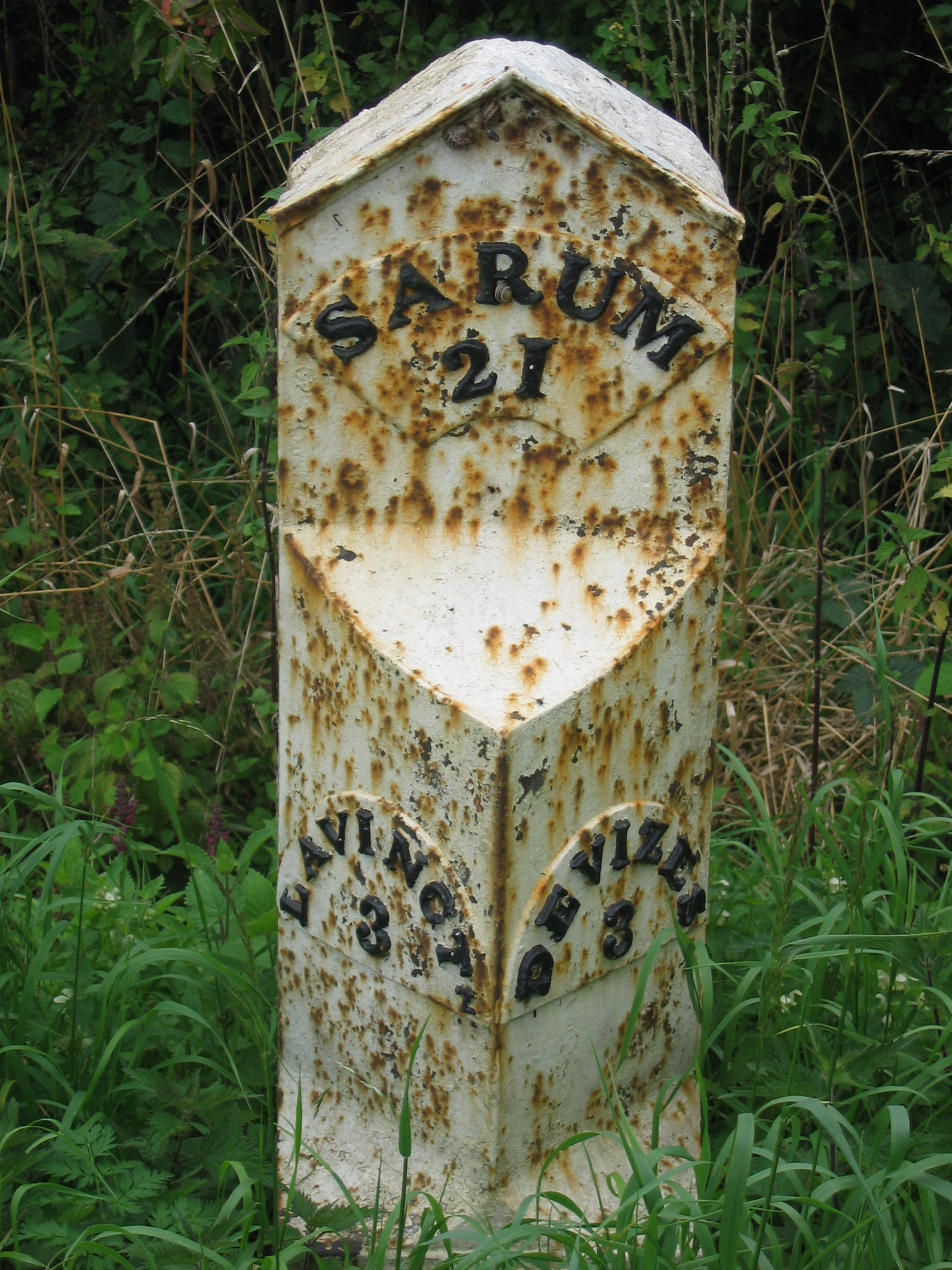 19 century milestone preserved on road A360 near Potterne, Wiltshire 21 miles to Sarum (Salisbury), 3 to Market Lavington, 3 to Devizes